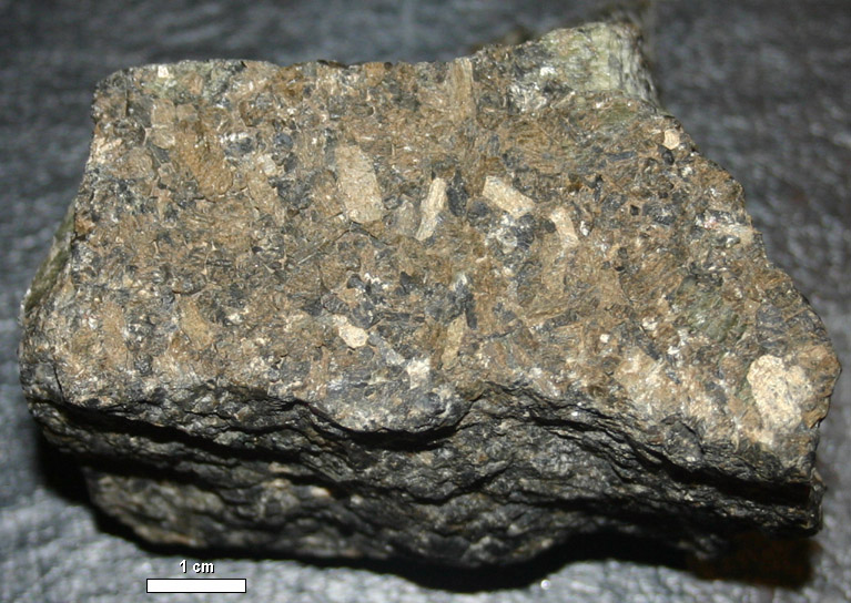 Chromitite with bronzite phenocrysts from Stillwater igneous complex, Montana. Collected 1997. Scale bar is 1 cm.